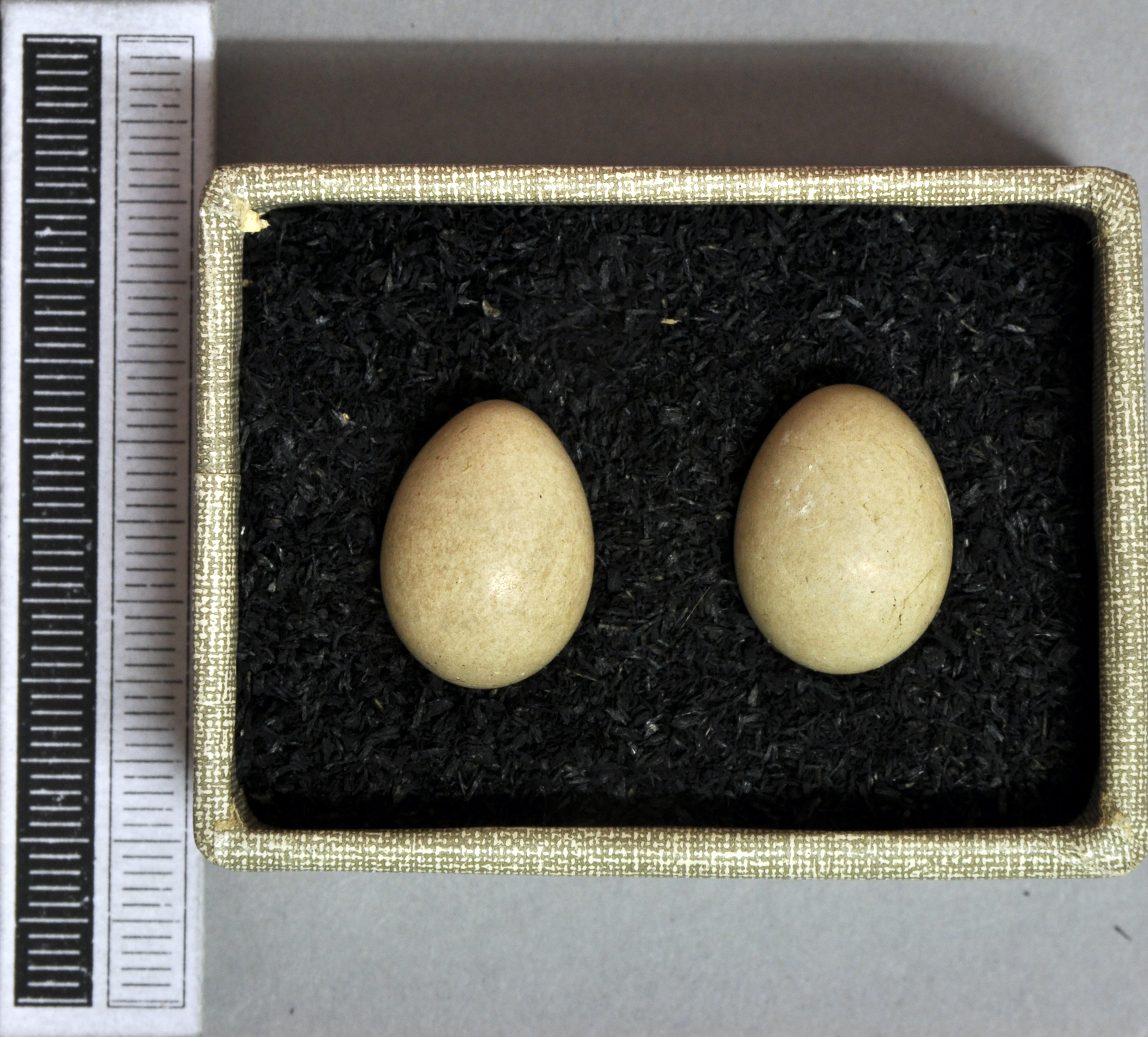 Moustached warbler Acrocephalus melanopogon , egg, Coll. Museum Wiesbaden